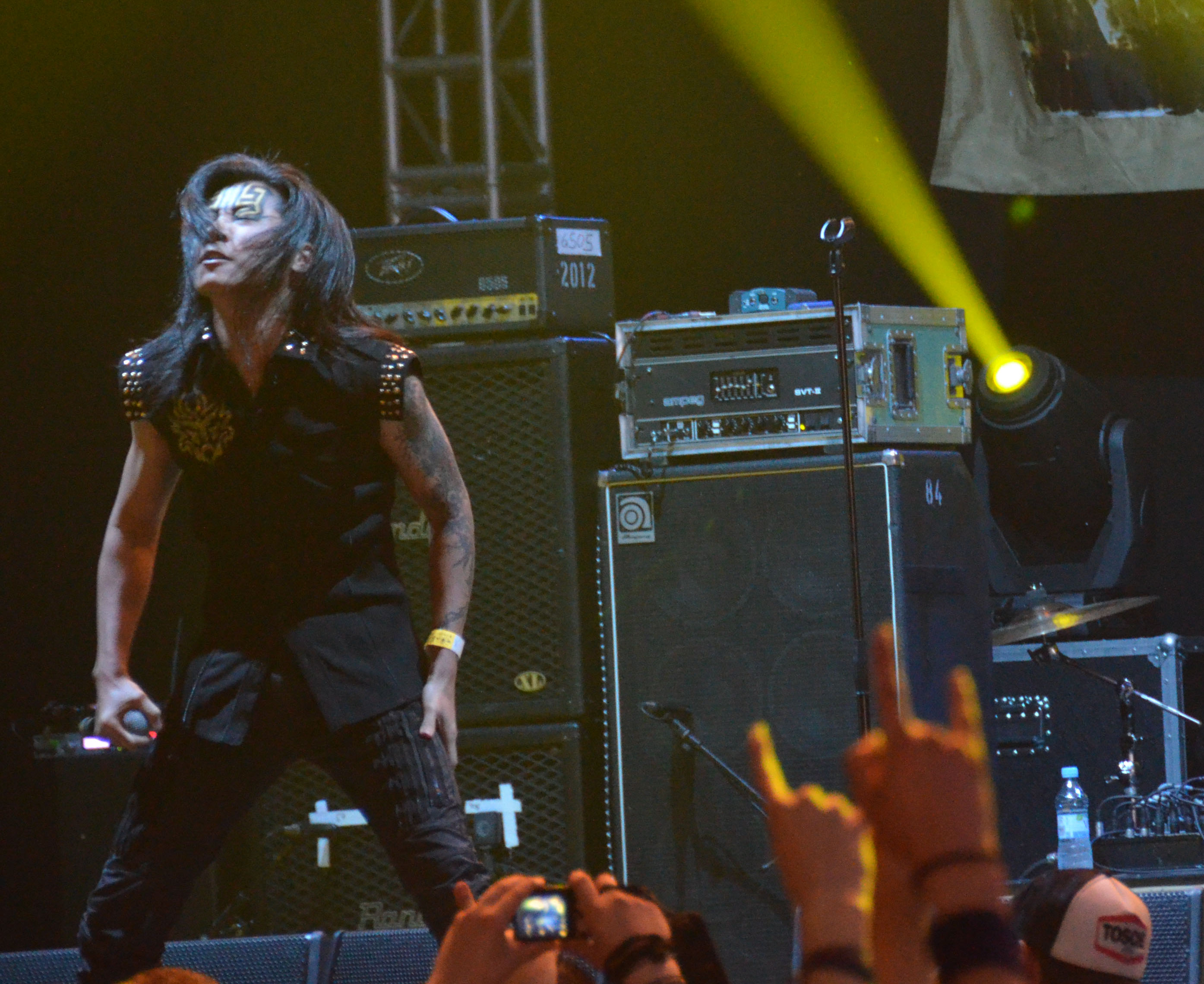 Chthonic at Wacken Open Air 2012